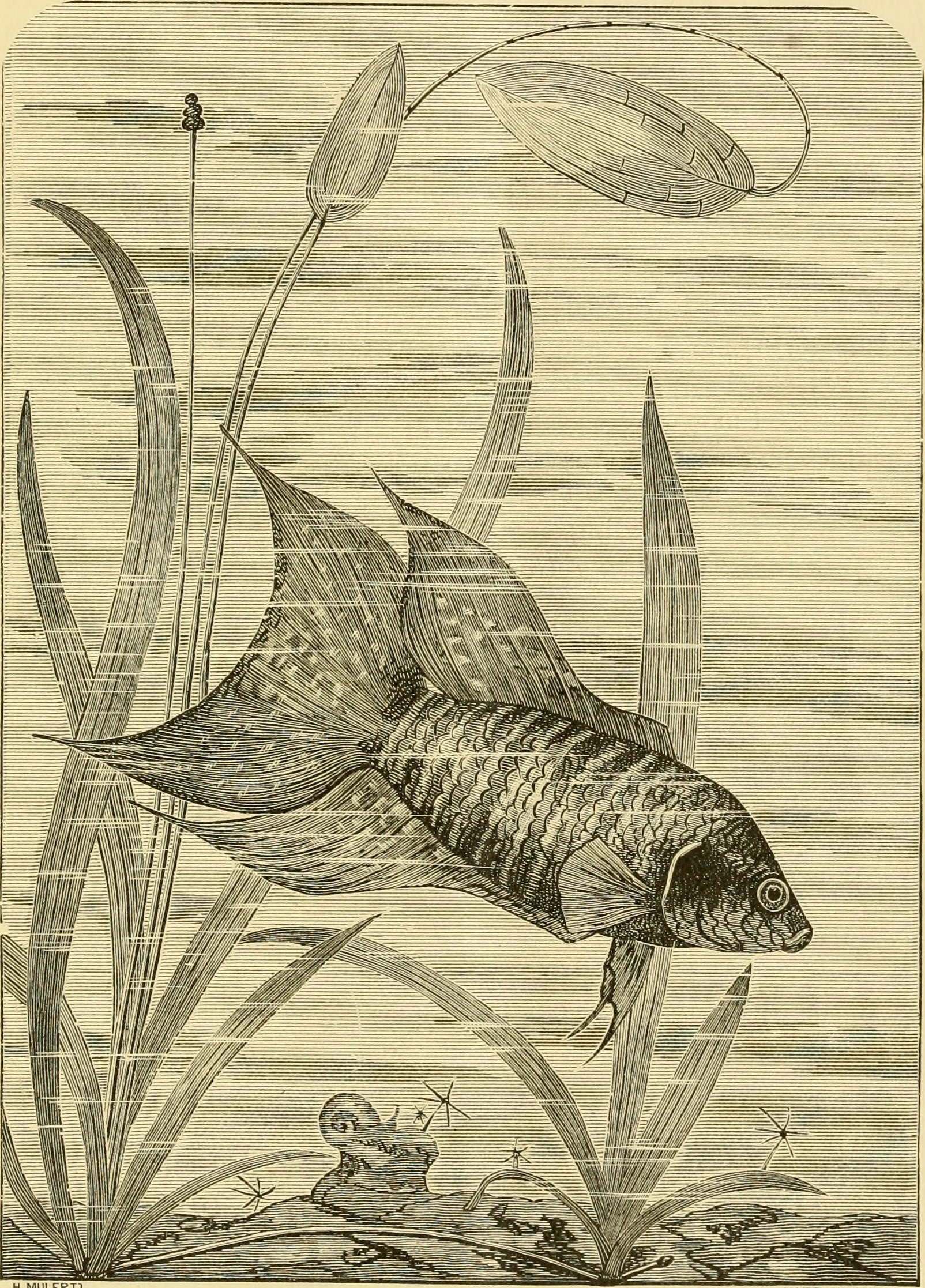 Title: The aquarium Year: 1897 (1890s) Authors: Mulertt, Hugo Subjects: Aquarium animals; Aquarium fishes; Aquariums Publisher: Brooklyn, N. Y. : H. Mulertt Text Appearing Before Image: THE AQUARIUM, OCTOBER, 1893. 79 DAFFODILS GROWN IN WATER. When planting your bulbs for the window garden this fall, don't forget to plant some Daffodil Bulbs (Narcissus trumpet major) in a dish filled with pebbles and water. Treat the same as you would Chinese sacred lilies, expos- ing them to light at once. They will bloom excellently this way, and if planted at intervals of a couple of weeks they may be had in bloom from Christmas until Spring. Text Appearing After Image: H.MULERTl. . The Paradise Fish, male (Macropodus Venustus.)—Sagittaria nataus " New Era, Ramshoru Snail aud Hydra. All l^atural Size.